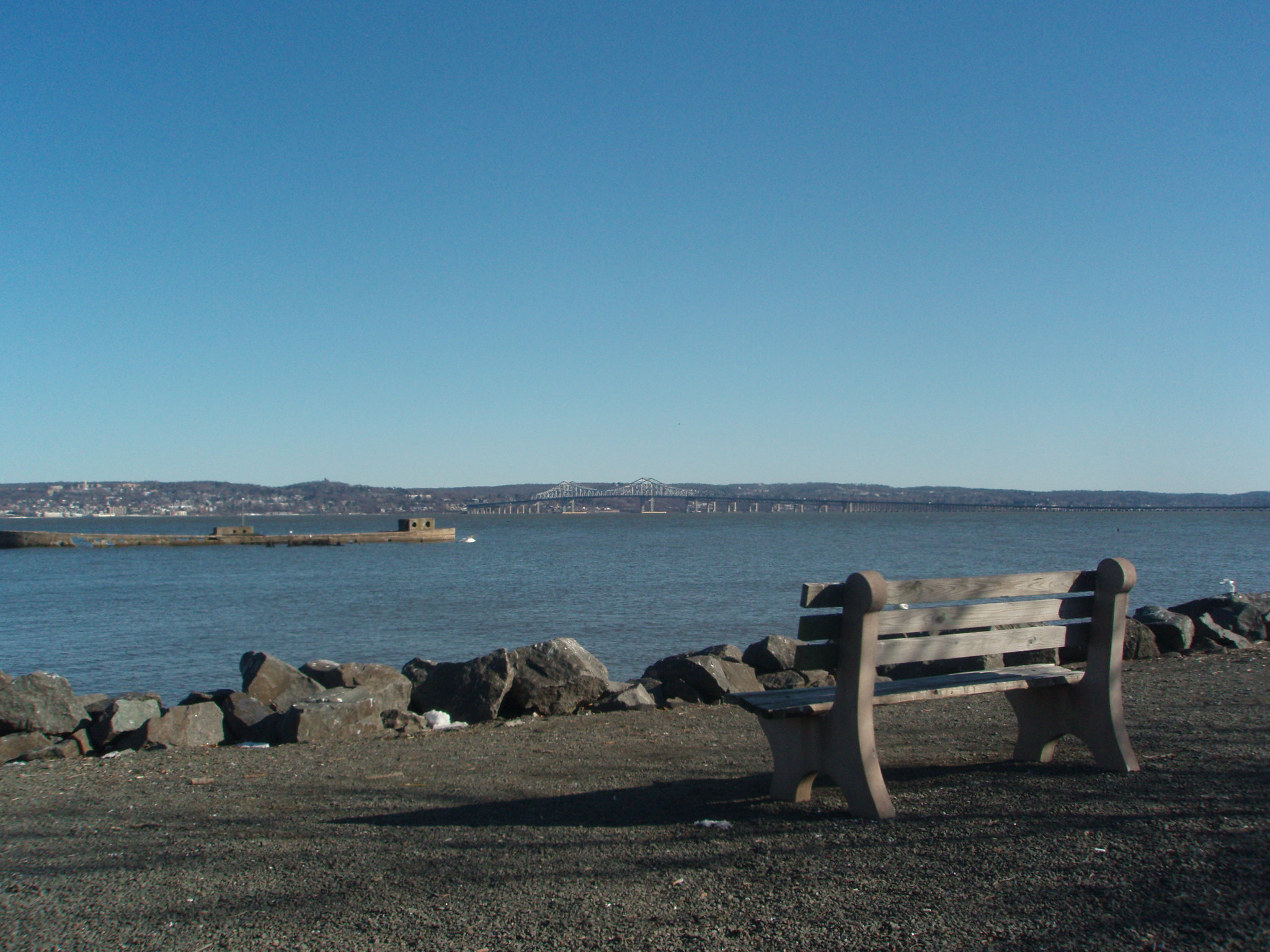 Memorial Park in Nyack, NY along Hudson River